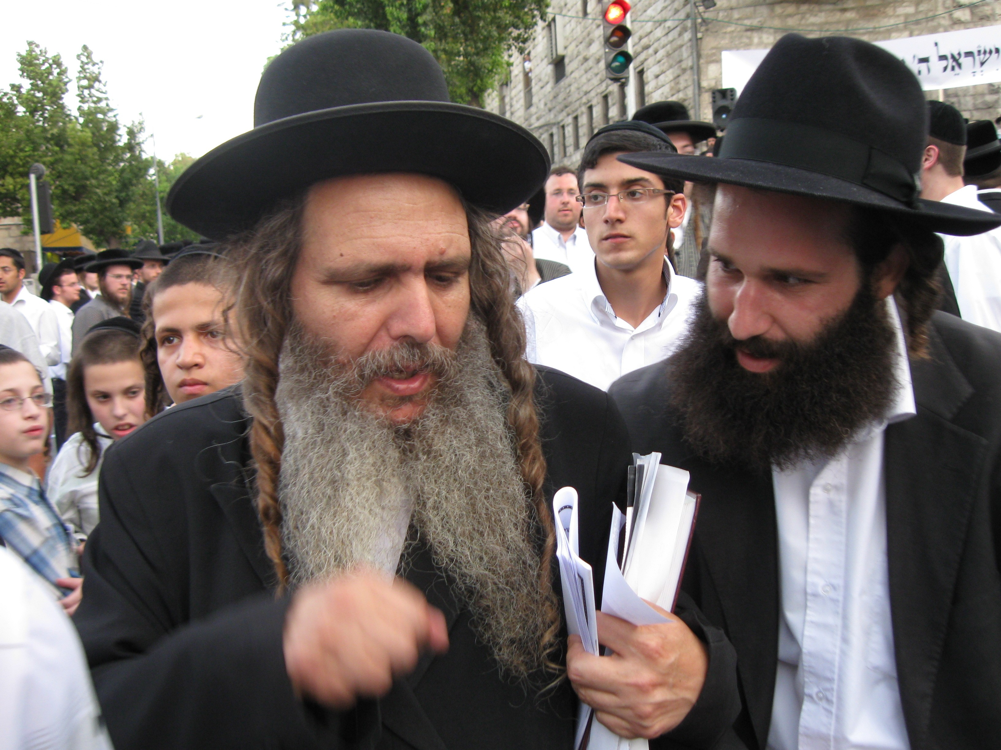 Rabbi Shalom Arush (left) after speaking at a tzniut rally in Jerusalem.